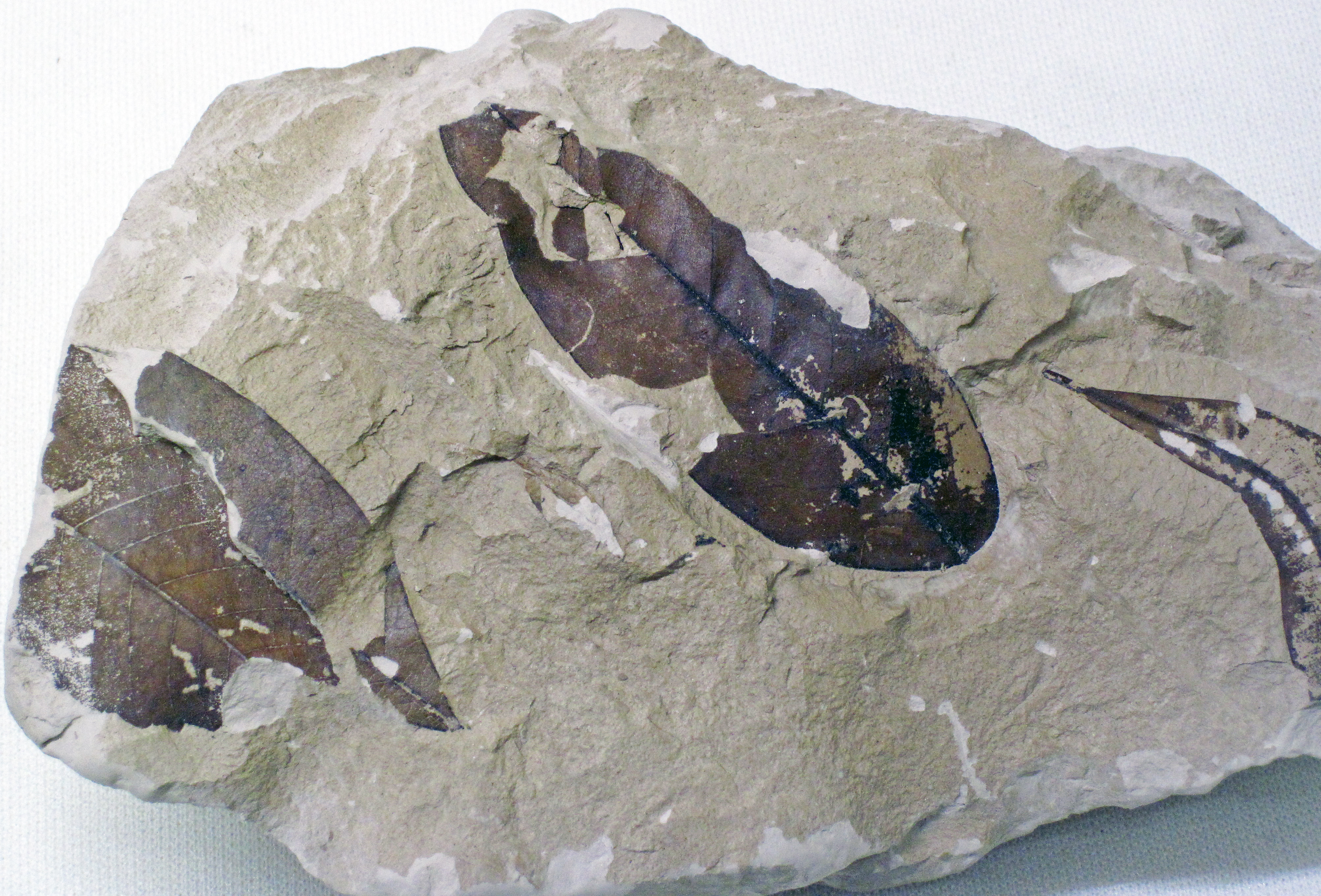 Cladrastis-like sp. - fossil leaflet from the Eocene of Tennessee, USA. Plants are multicellular, photosynthetic eucaryotes. The oldest known land plant body fossils are Silurian in age. Fossil root traces of land plants are known back in the Ordovician. The Devonian was the key time interval during which land plants flourished and Earth experienced its first “greening” of the land. The earliest land plants were small and simple and probably remained close to bodies of water. By the Late Devonian, land plants had evolved large, tree-sized bodies and the first-ever forests appeared. Classification: Plantae, Angiospermophyta, Fabales, Fabaceae Stratigraphy: Claiborne Formation (also known as the Claiborne Group), Eocene Locality: unrecorded/undisclosed site in western Tennessee, USA